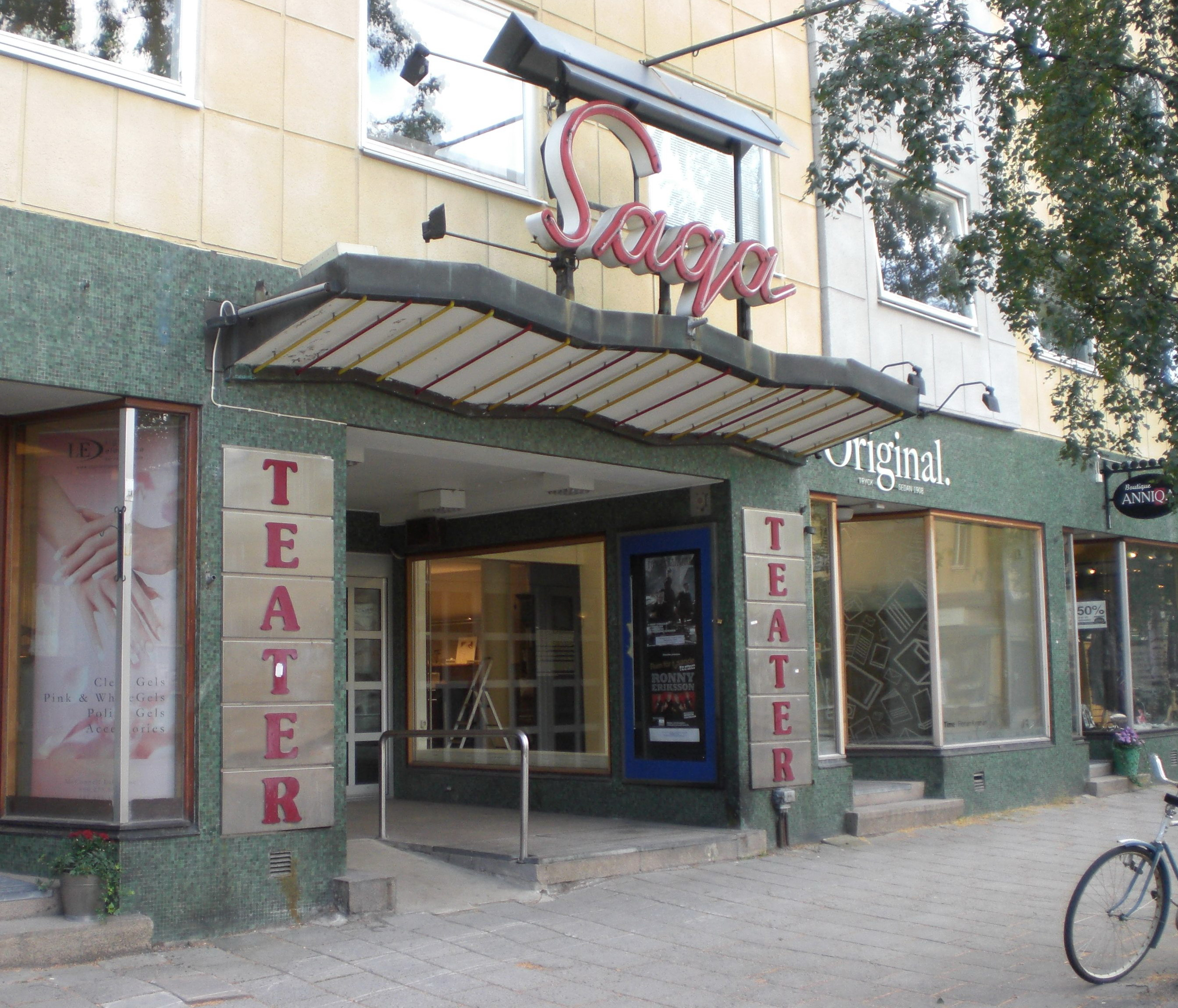 Saga Theatre, Umeå, Sweden